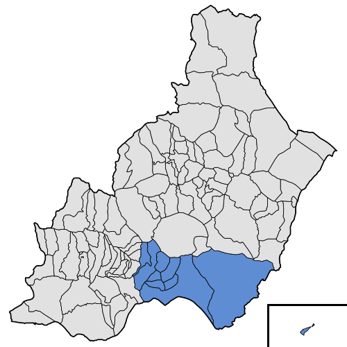 Map of the Metropolitan Region of Almería, region of province of Almería